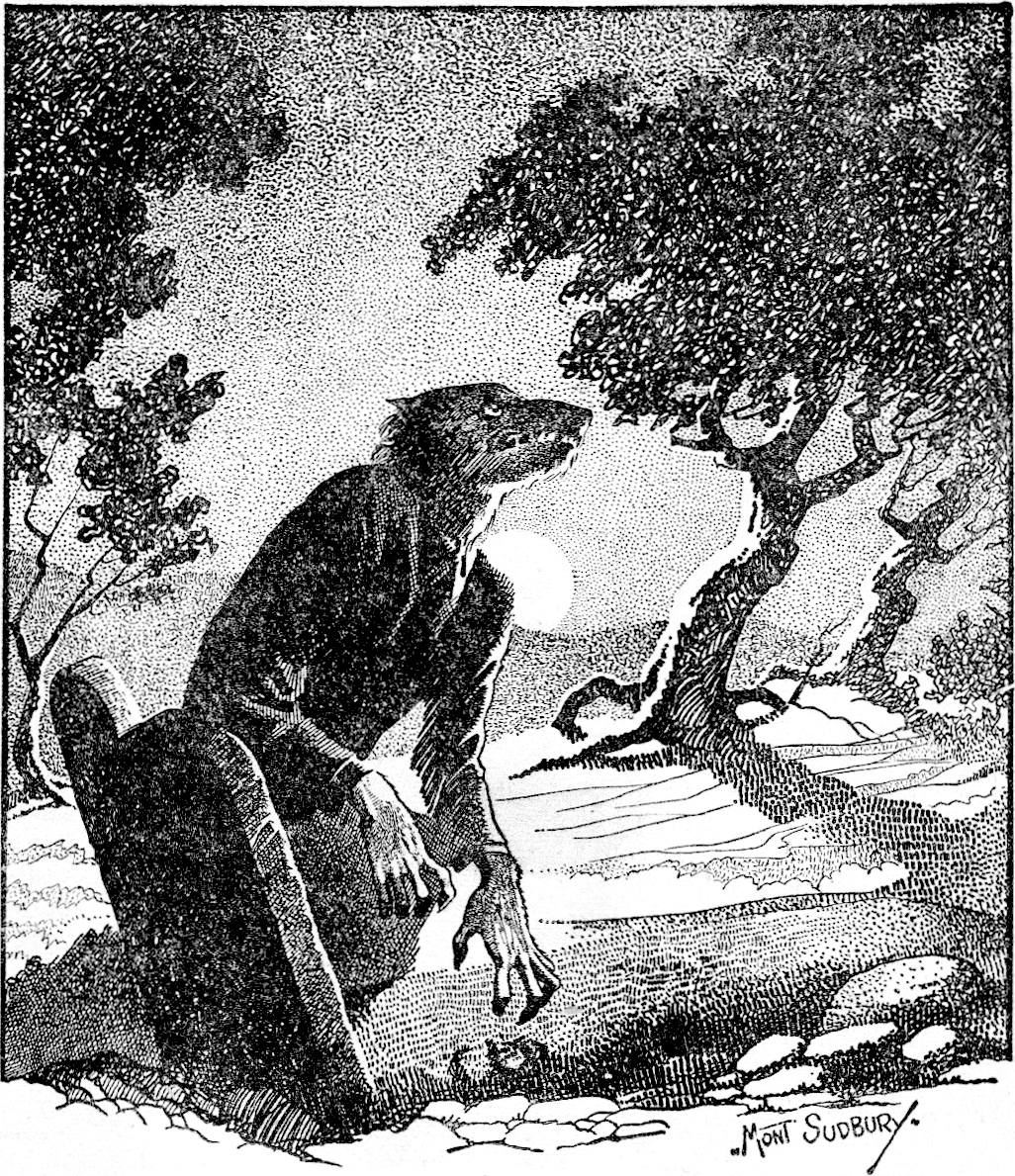 Drawing of a werewolf in woodland at night. Main illustration for the story "The Werewolf Howls". Internal illustration from the pulp magazine Weird Tales (November 1941, vol. 36, no. 2, page 38).